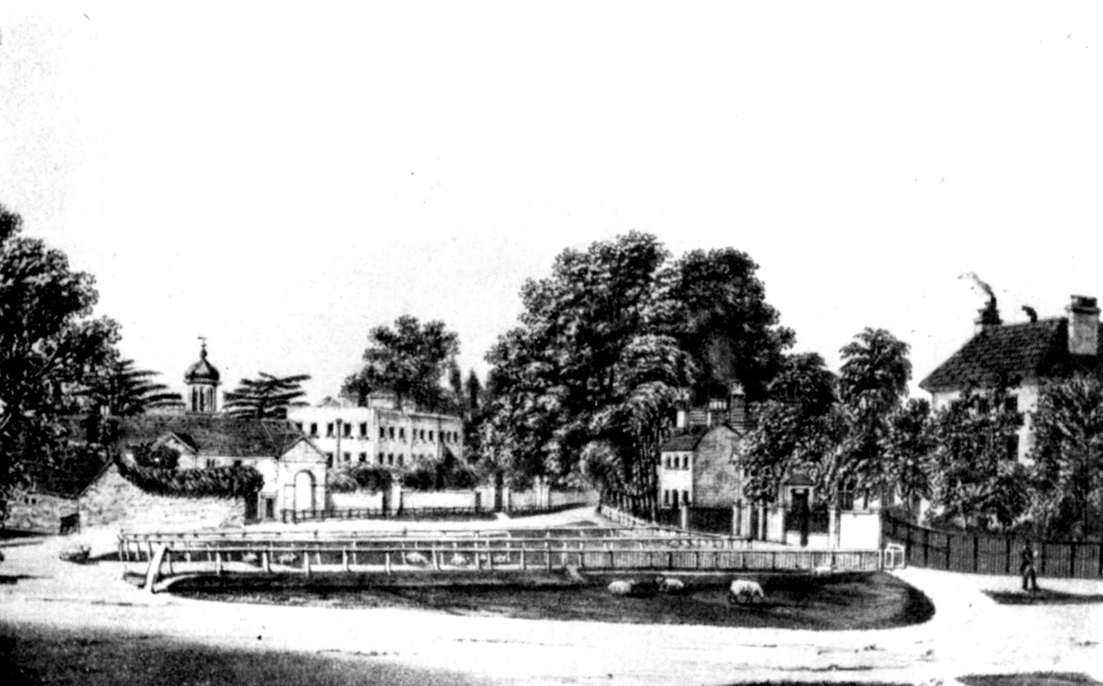 Minchington Hall and Southgate Green from an old painting